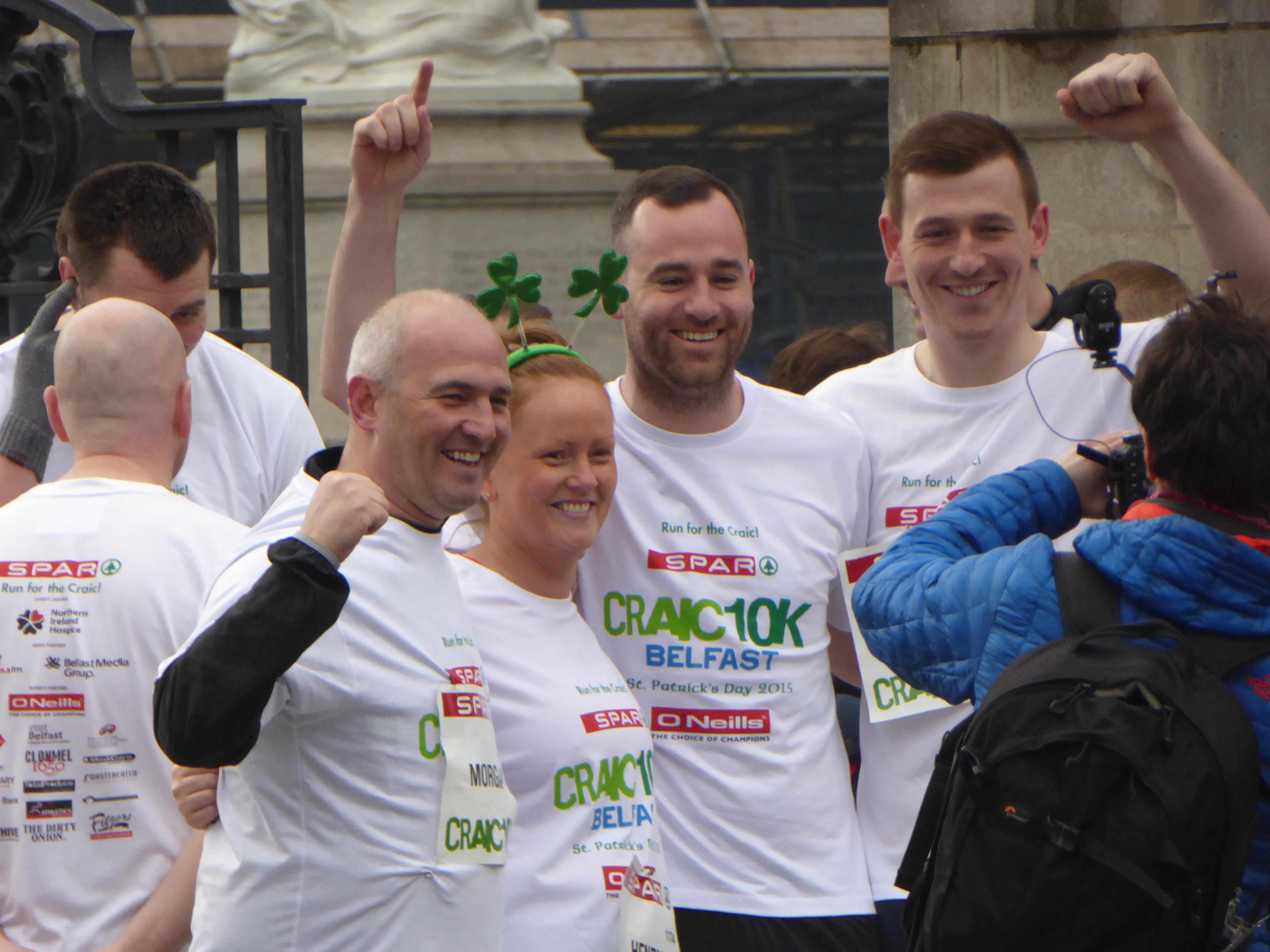 SPAR Craic 10k, Belfast City Hall, Belfast, Northern Ireland, March 2015